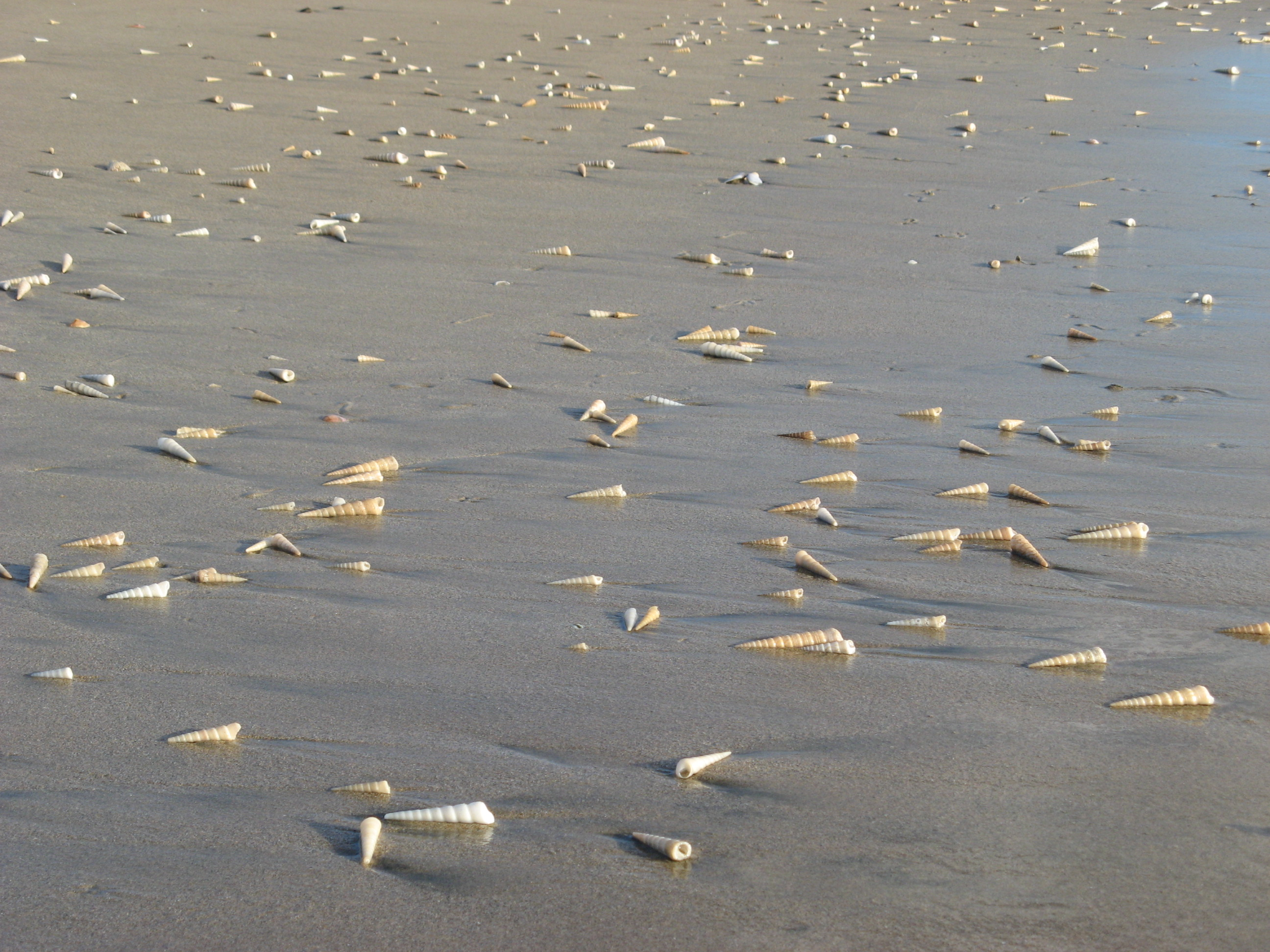 Sea shells, marine gastropods of the genus Turritella, washed up on the beach at Playa Grande, Costa Rica